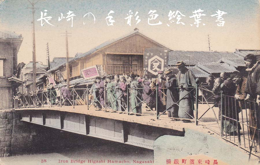 Japanese hand tinted postcard showing the Iron Bridge at Higashi Hamacho in Nagasaki